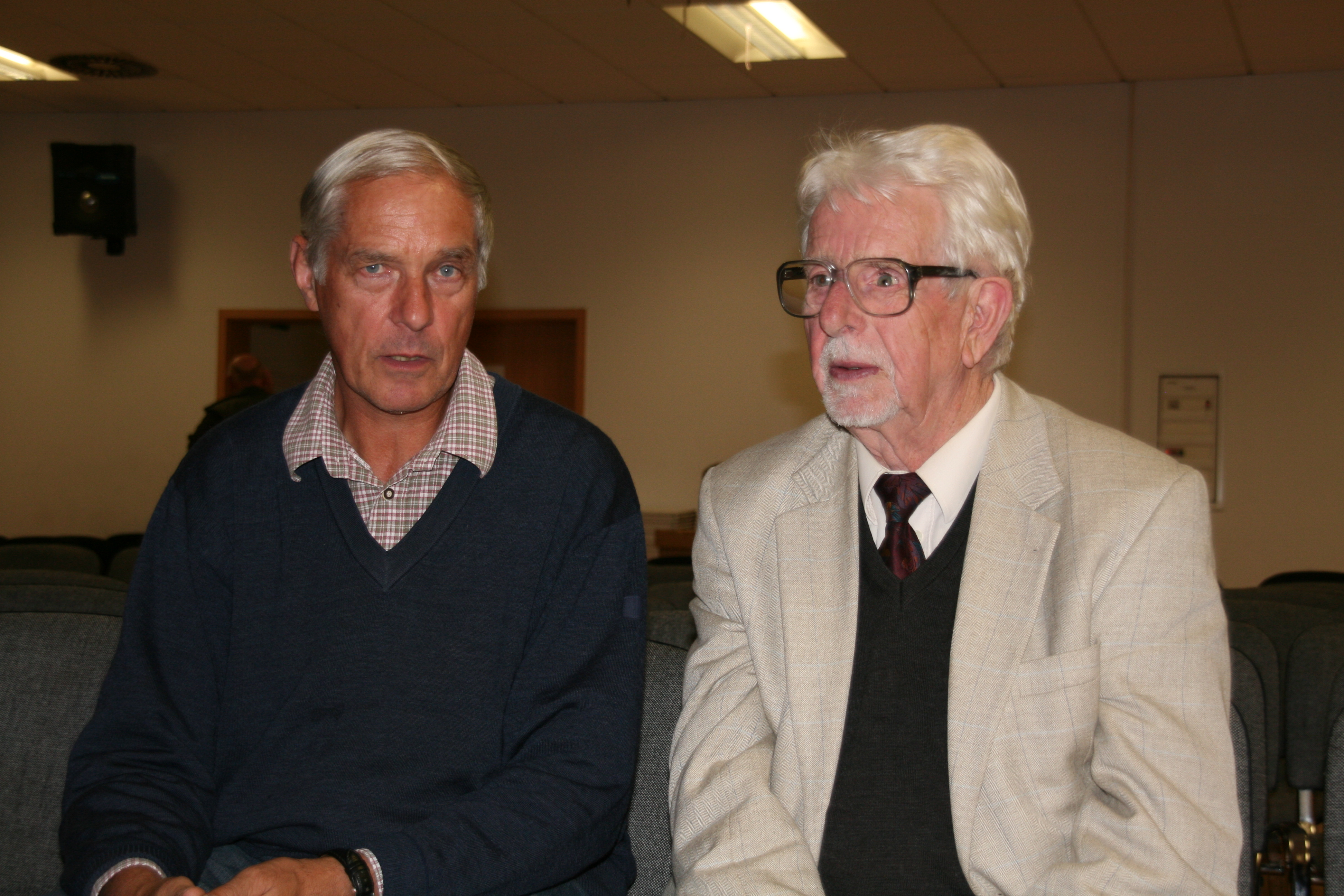 Wolfgang Scherzinger (left) and Theodor Mebs